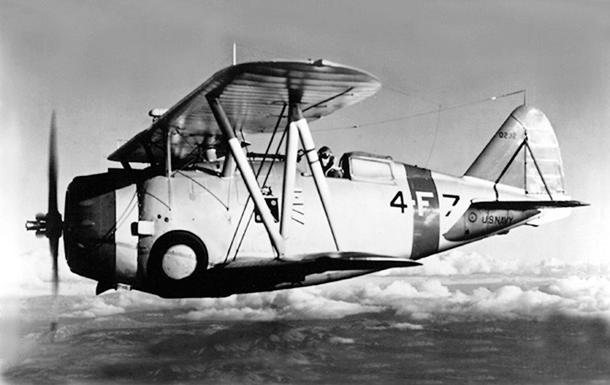 A Grumman F3F-1 0232 fighter of U.S. Navy fighter squadron VF-4 in the 1939-01-13 - VF-4 was assigned to the aircraft carrier USS Ranger (CV-4).